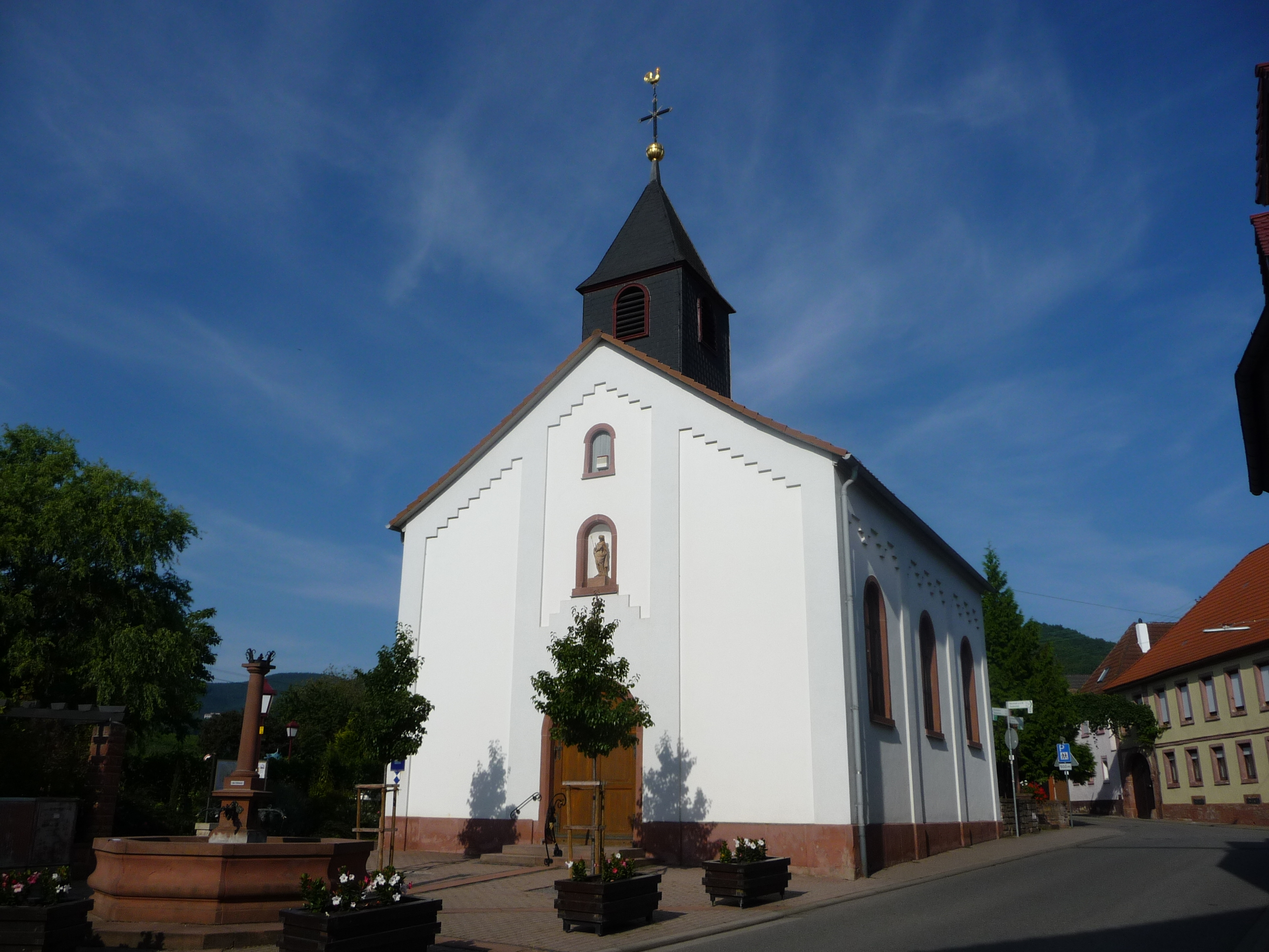 Alsterweiler